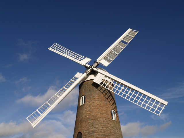 Wilton1